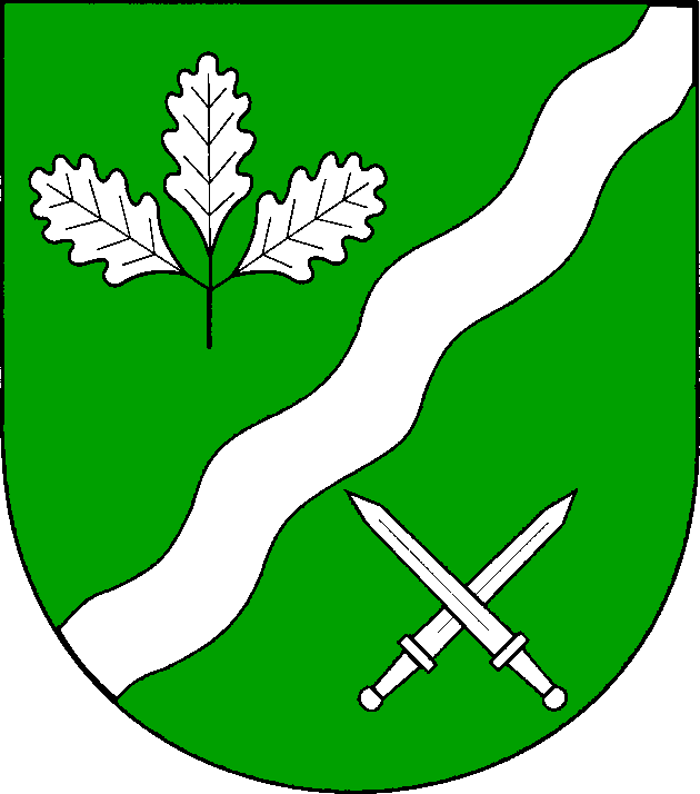 Coat of arms of the municipality Lohe-Föhrden in Schleswig-Holstein, Germany.